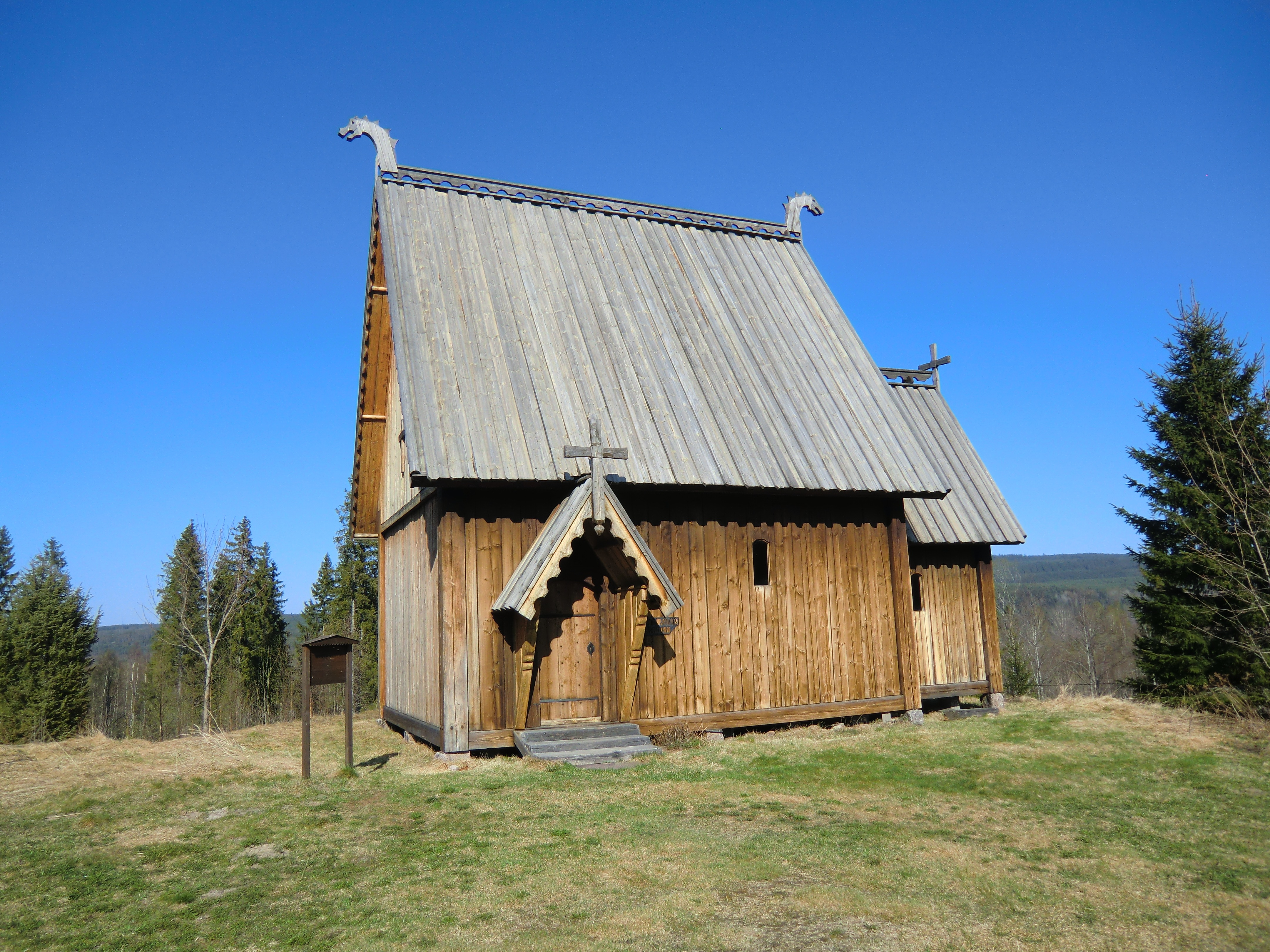 A stave church built 2002 in Ekshärad, Sweden.